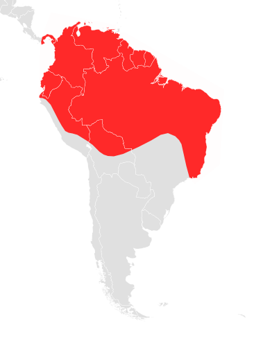 Distribution of Carollia brevicauda